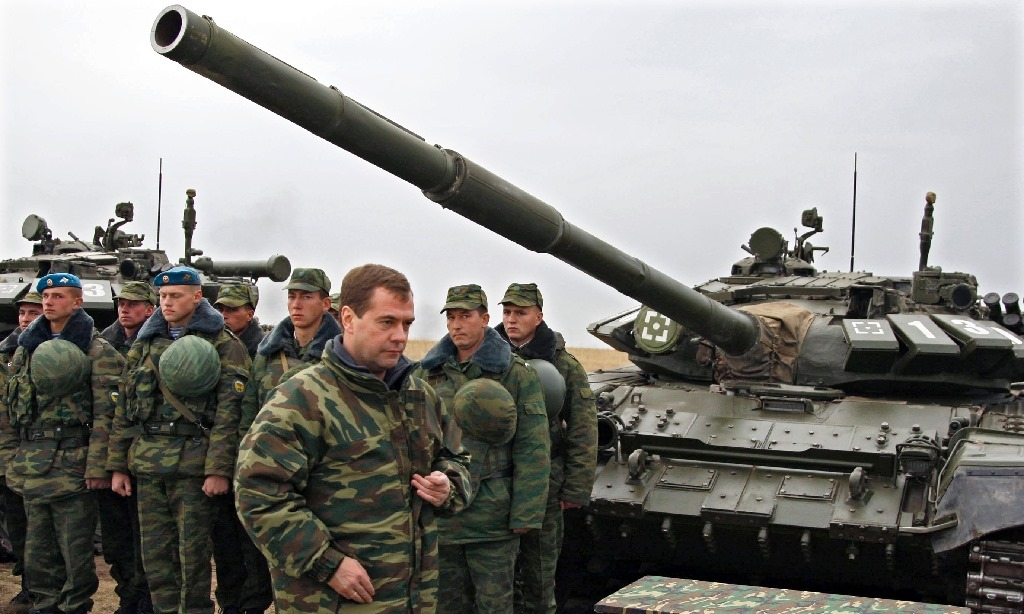 DONGUZ TEST GROUND, ORENBURG REGION. At the strategic operations exercises Centre-2008.